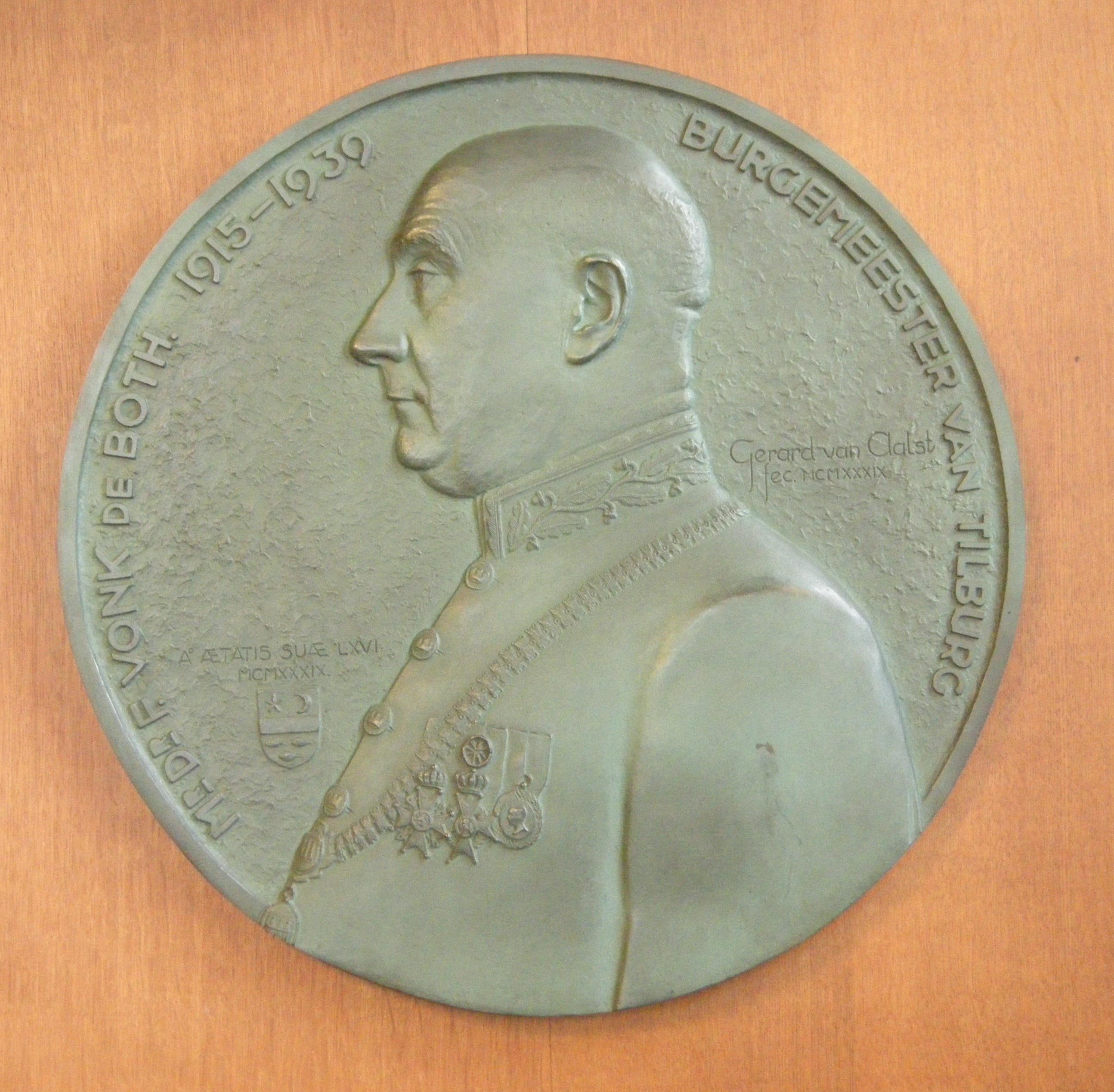 A bronze remembrance placard for F.L.G.Z.M. Vonk de Both, who was mayor of the municipality Tilburg (the Netherlands) from 1915-1939. He is portrayed on this placard at age of 66. The artist of the placard is Gerard van Aalst (1896-1965)